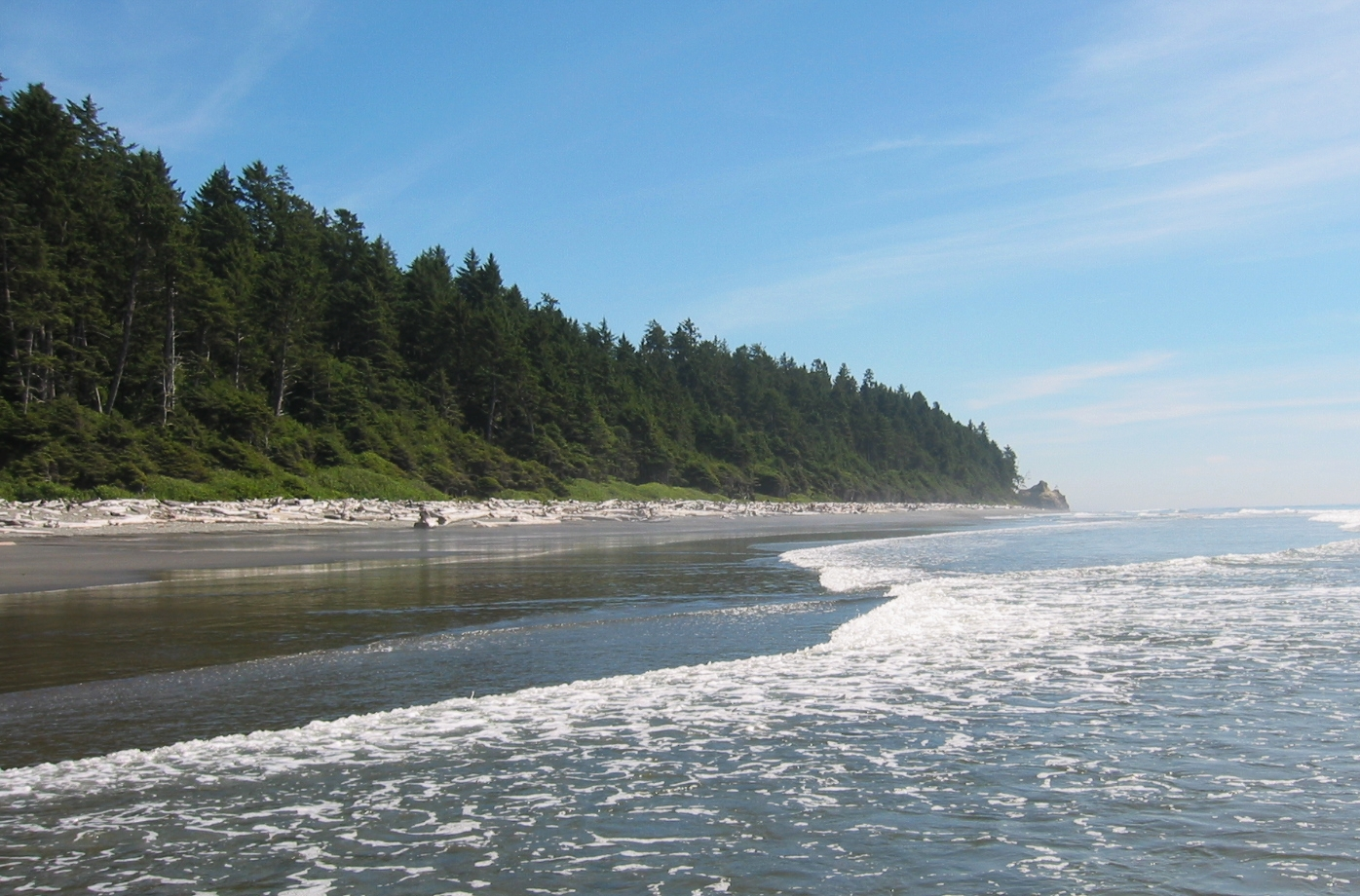 Temperate rain forest on the coast of Oregon, United States Note: The title doesn't match the description – the Olympic Coast isn't in Oregon. It's not unclear which location is correct.